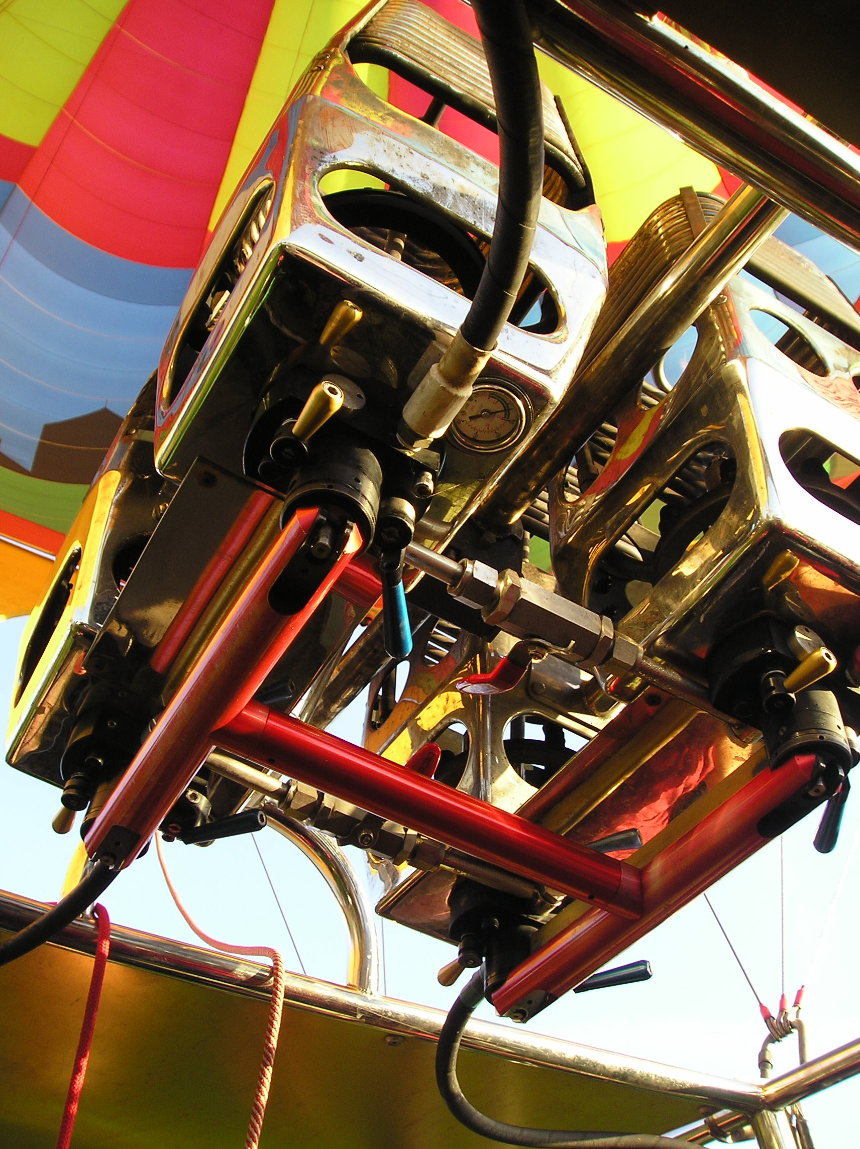 Hot air balloon burner